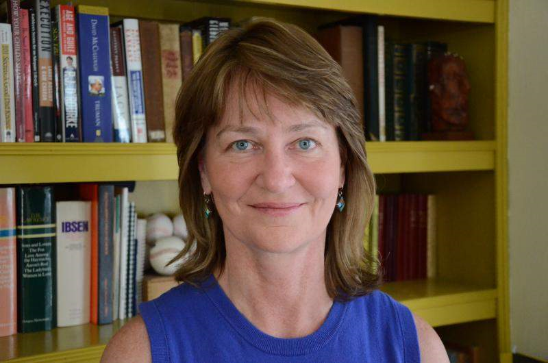 Former Indiana Lt Governor Kathy Davis